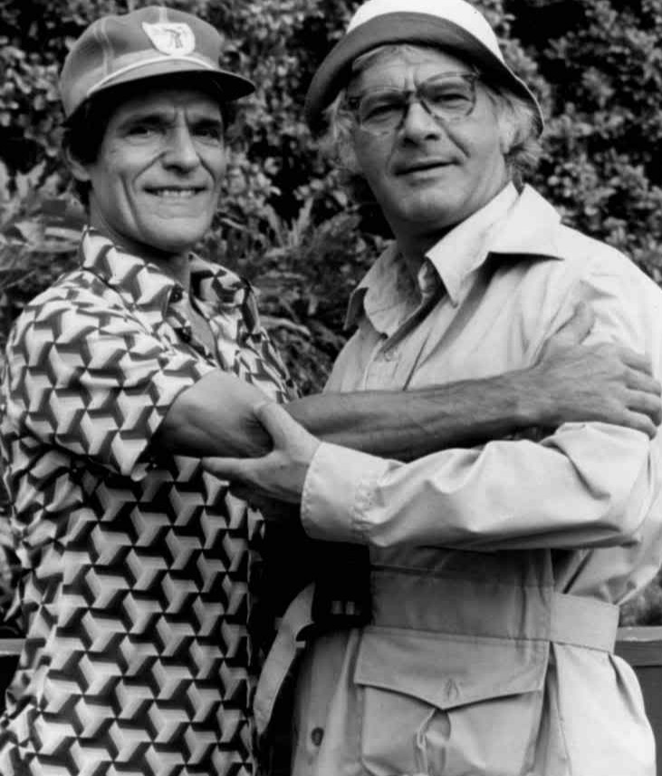 Publicity photo of puppeteer Cosmo Allegretti and actor Dick Shawn from the television program Captain Kangaroo. Allegretti performed the puppets Bunny Rabbit and Mister Moose on the program and was also Dancing Bear and the voice of Grandfather Clock and other characters on the program.